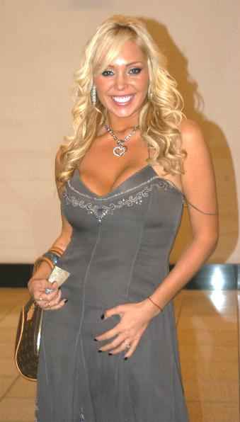 Mary Carey, American pornographic actress. Taken at the 2007 AVN Awards.